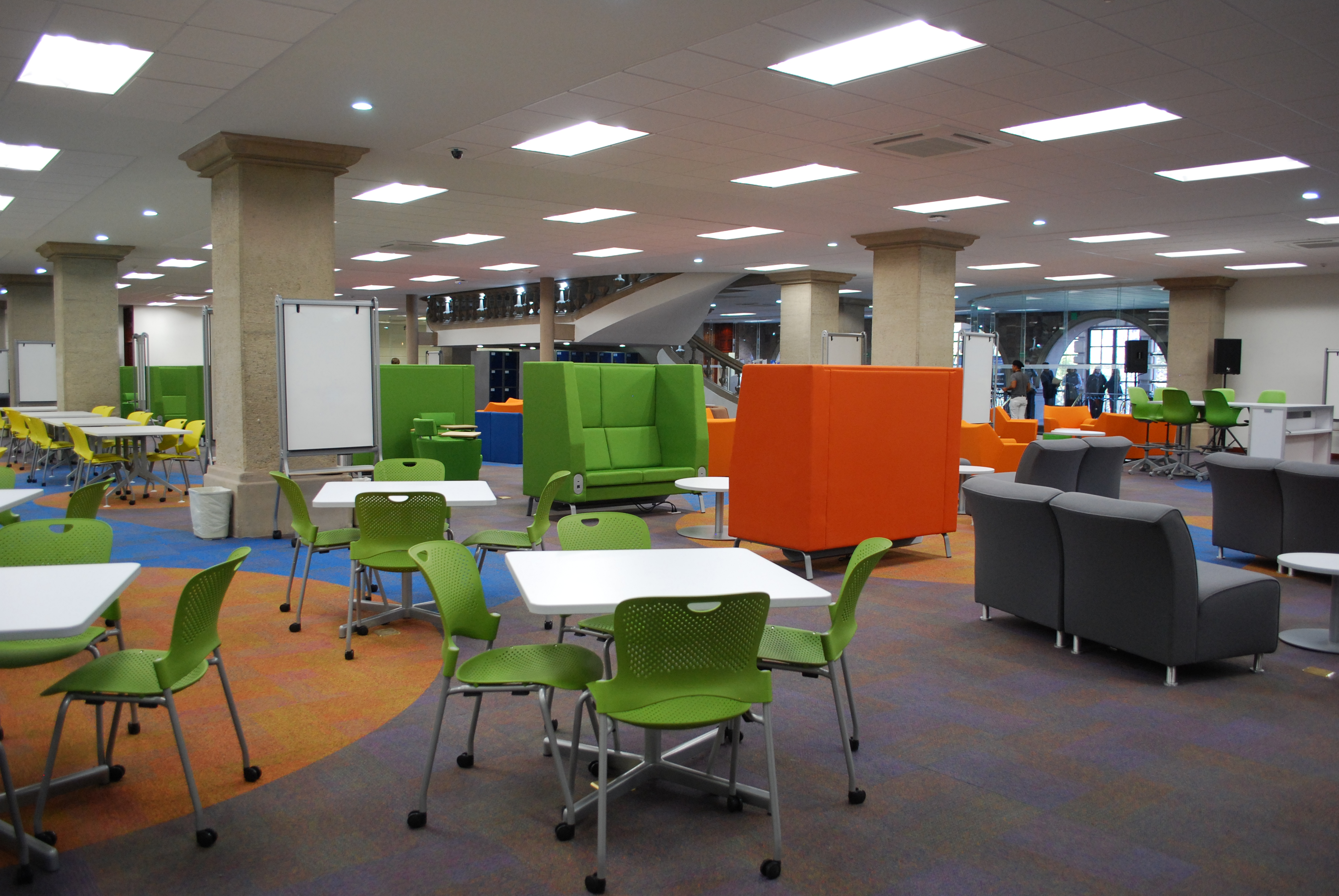 View of the Learning Commons at the ITESM-CCM library in Mexico City.